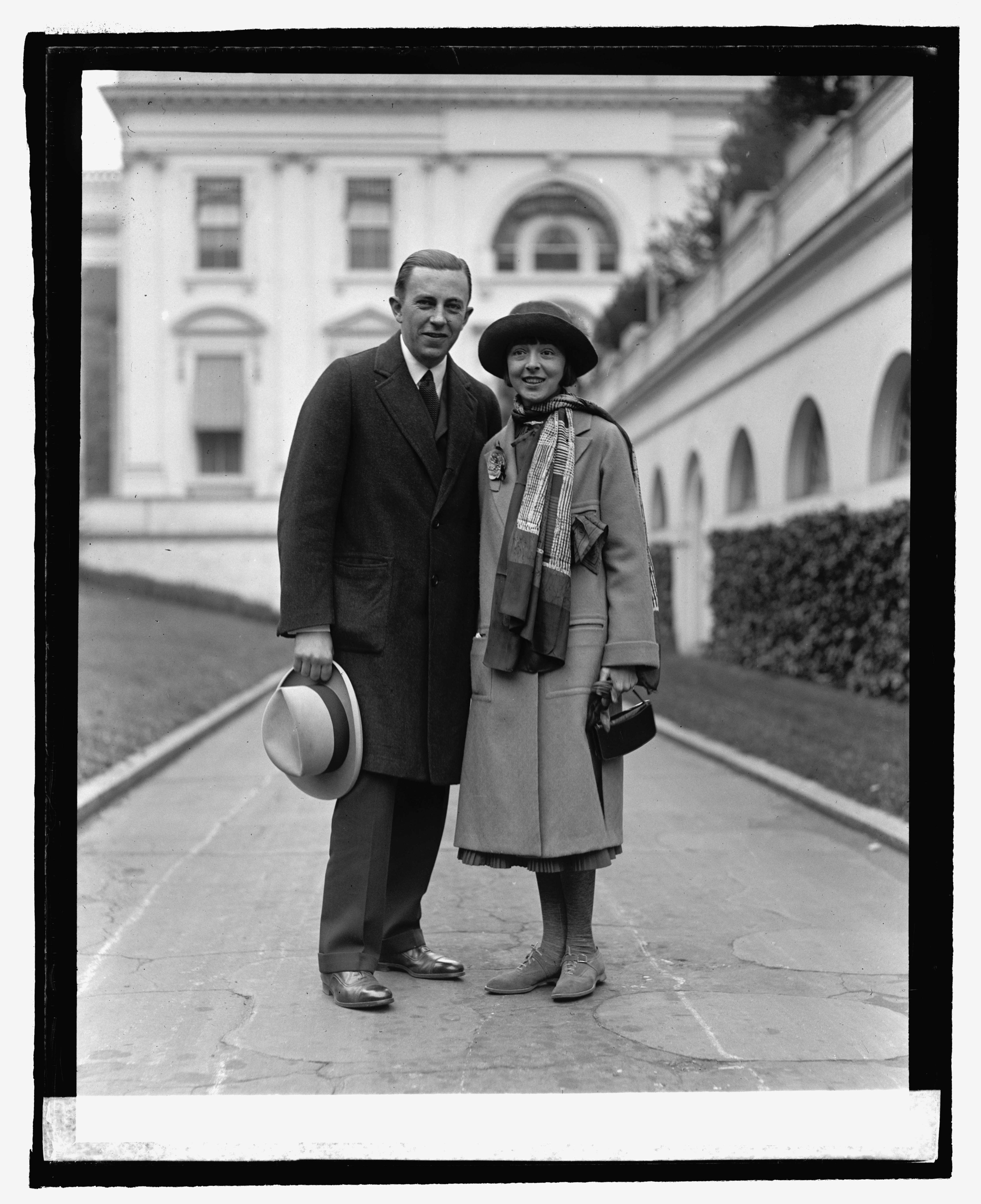 Title: Colleen Moore & husband, John McCormick, 4/29/25 Abstract/medium: 1 negative : glass ; 4 x 5 in. or smaller